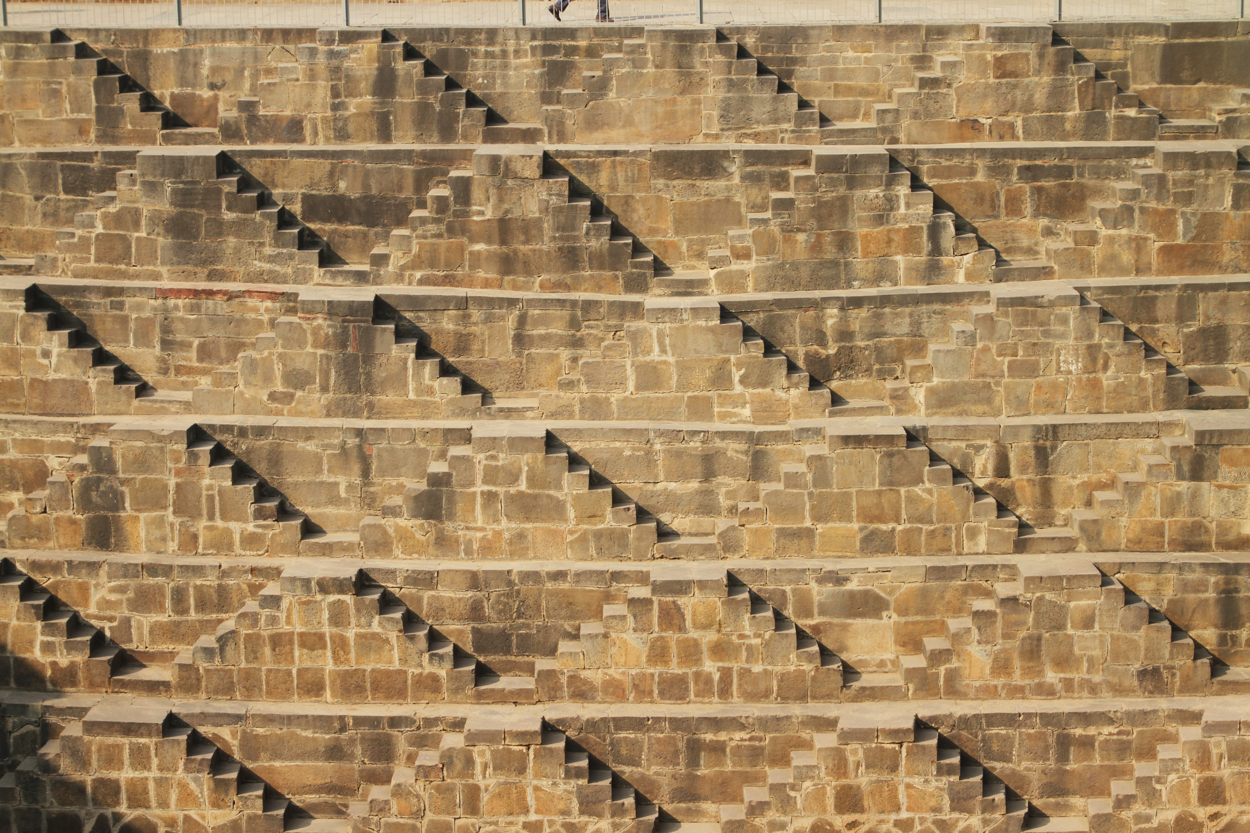 Chand Baori, Stepwell in Abhaneri